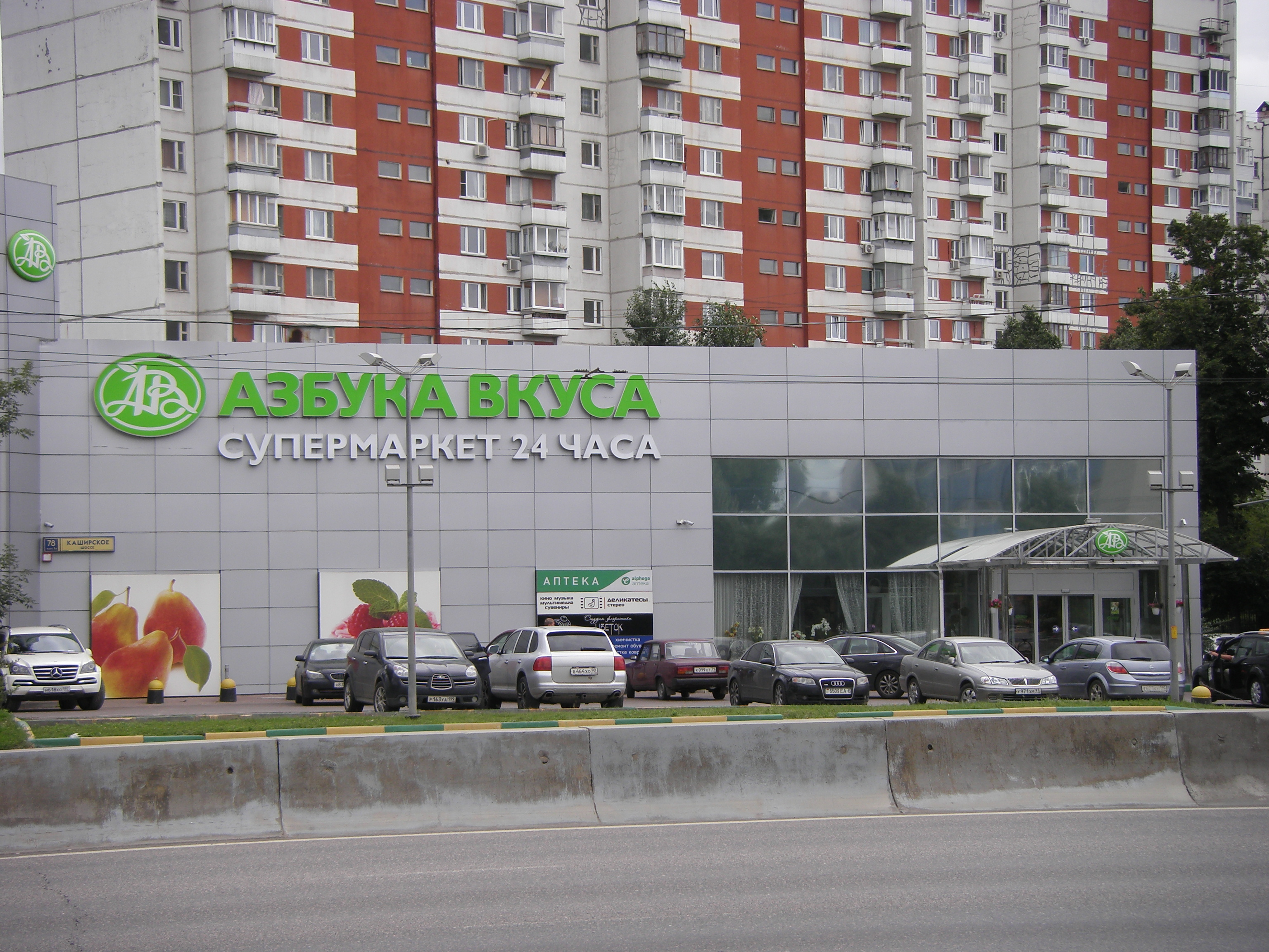 A store of the chain in Moscow, Kashirskoye Highway